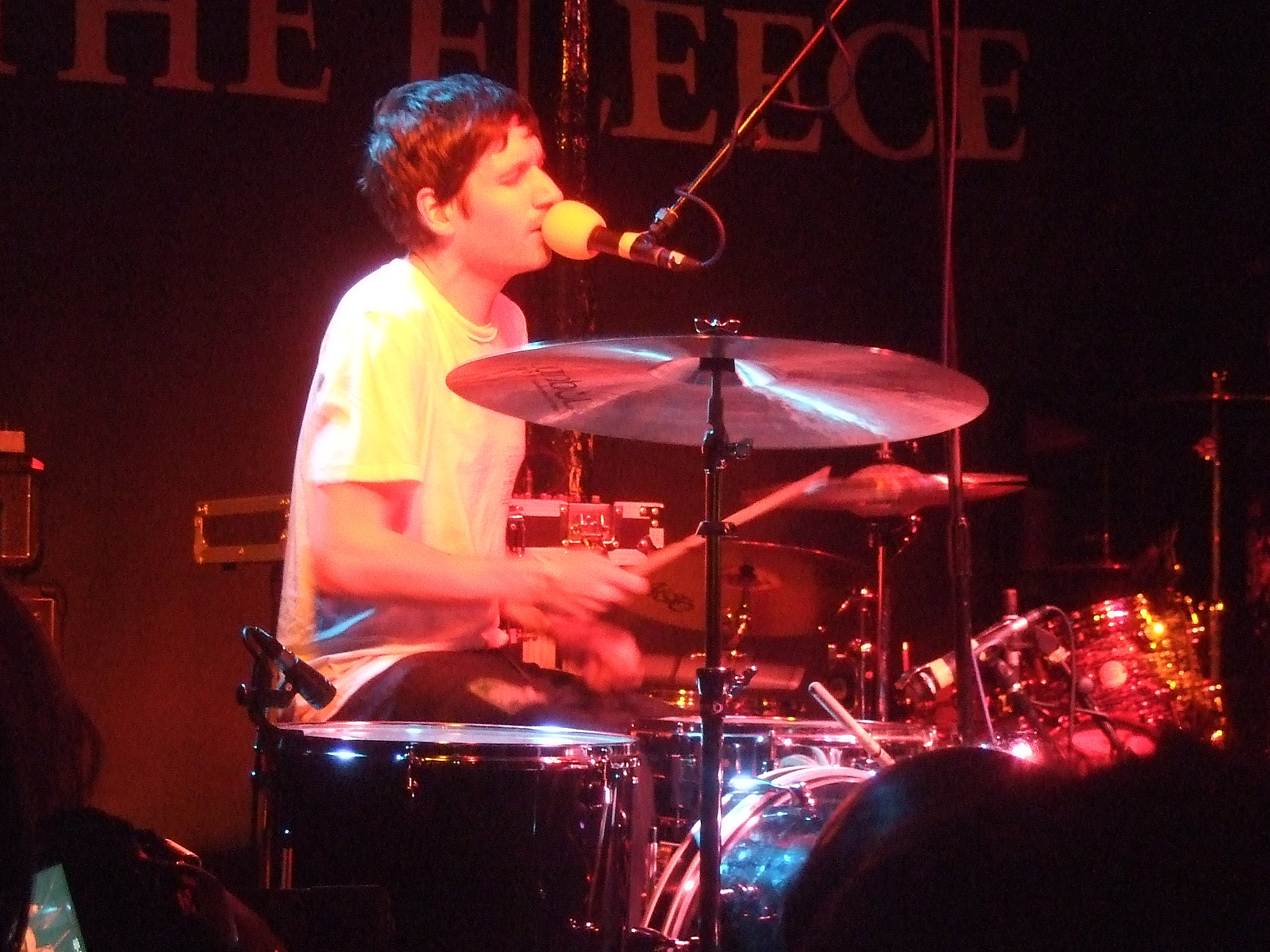 No Age Bristol Fleece 21 October 2008